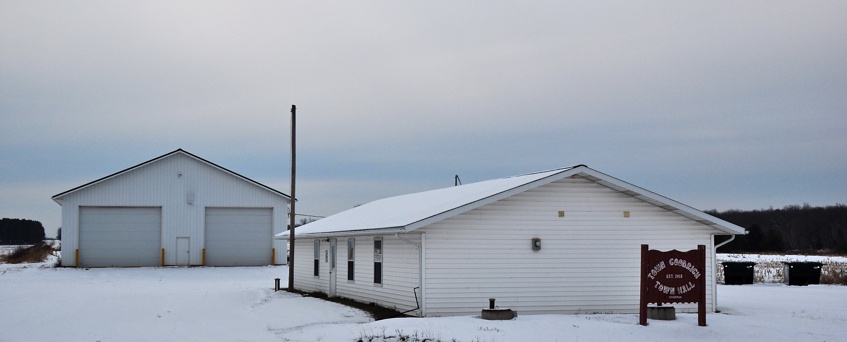 Located in Goodrich, Taylor County, Wisconsin